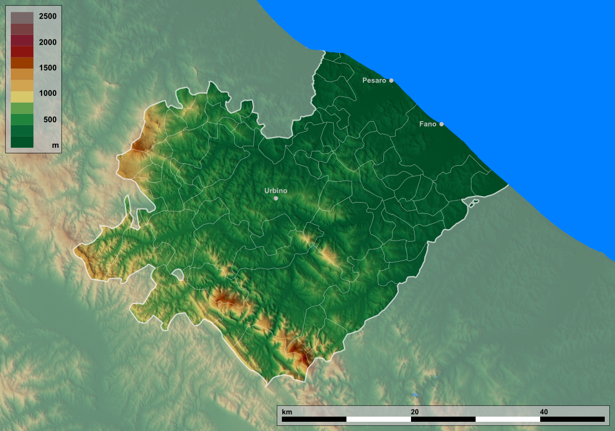 Map created with 3DEM from SRTM ( Administrative boundaries from OpenStreetMap.